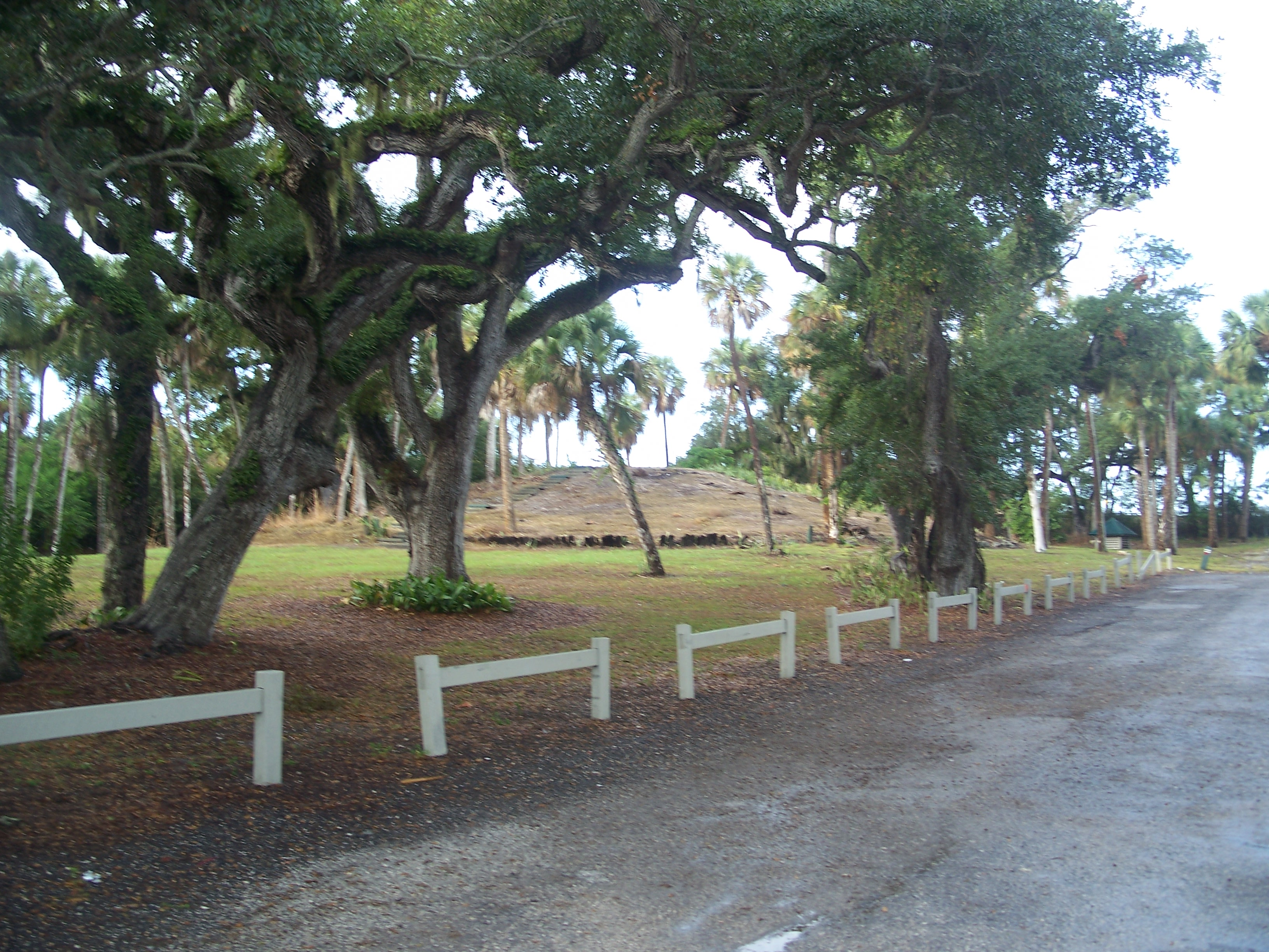 Fort Pierce, Florida: Old Fort Pierce Park: Site of the fort after which the city was named